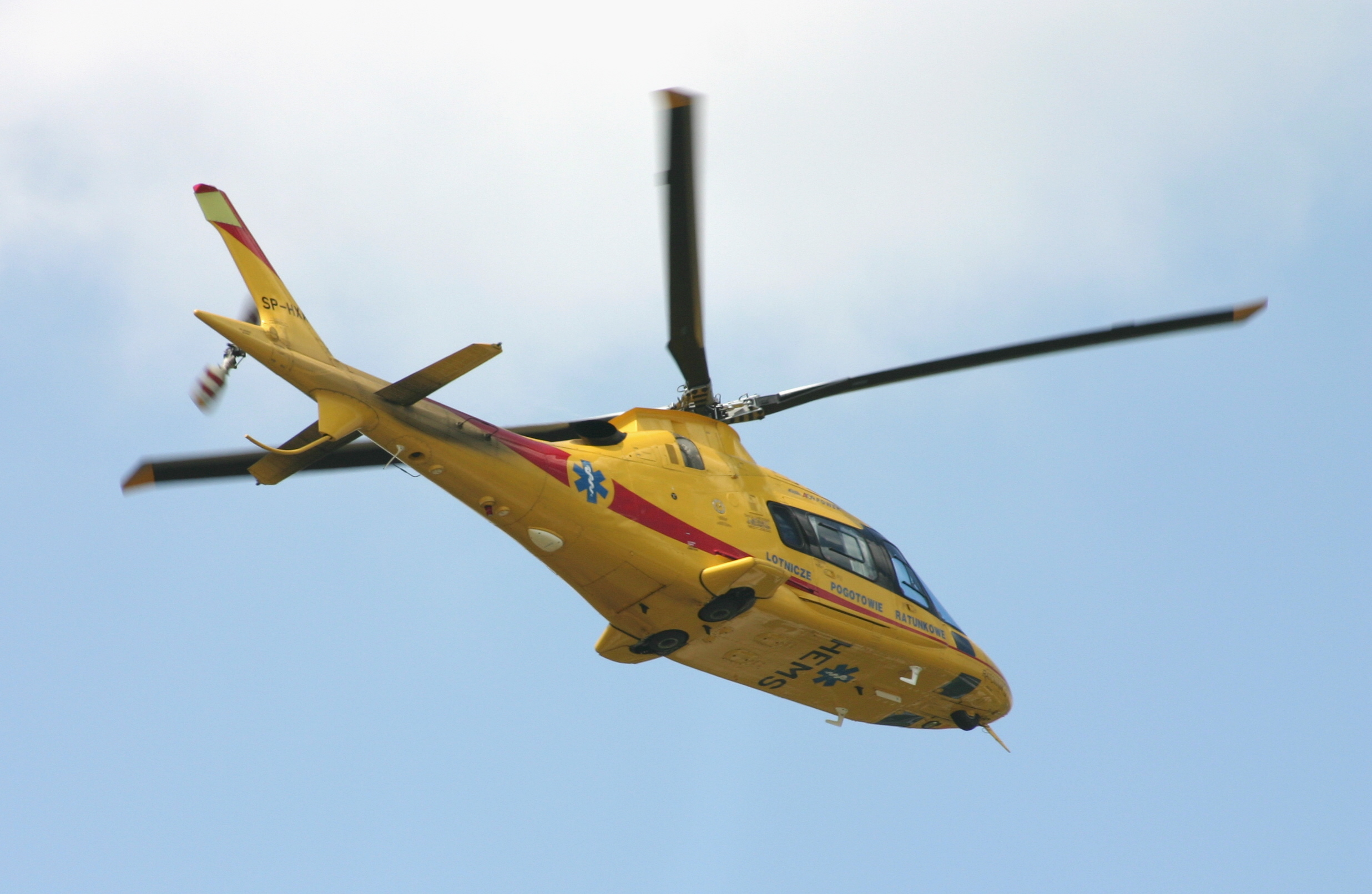 Agusta A109 Power of the Polish Lotnicze Pogotowie Ratunkowe (Air ambulance service) during Air Show Góraszka 2007